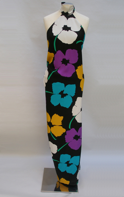 Black evening gown with vibrant flower print. James Galanos, American, 1980.